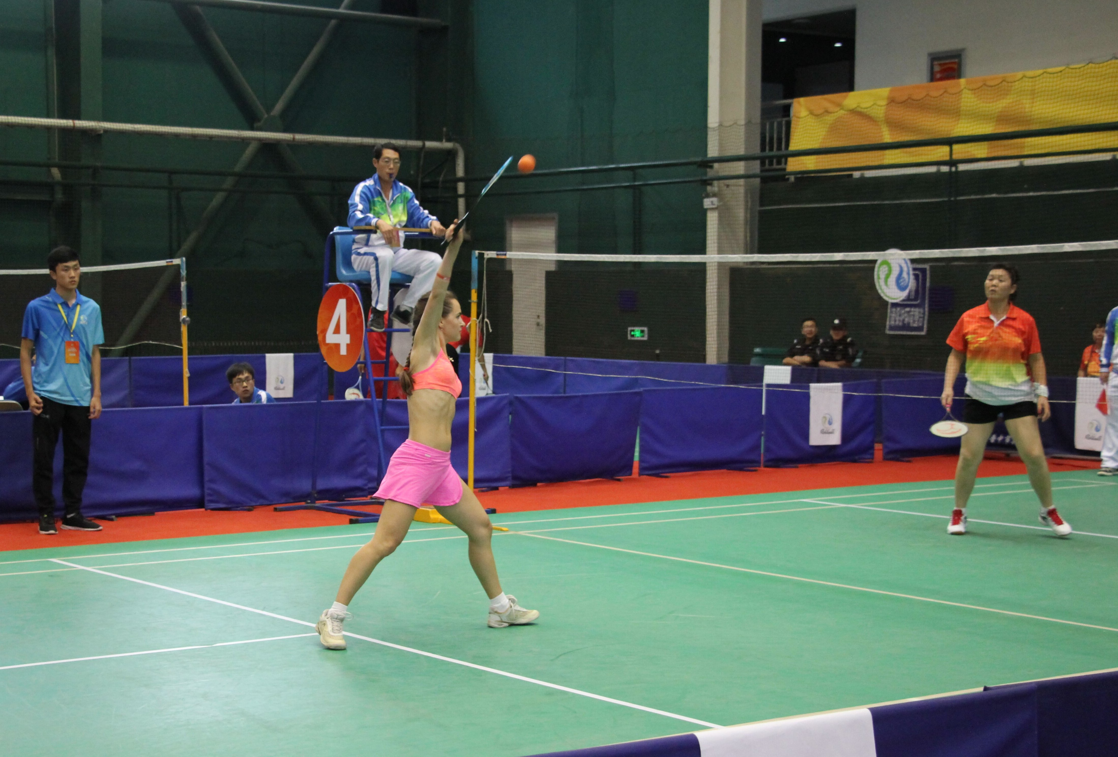 The game of roliball at the international championship in China